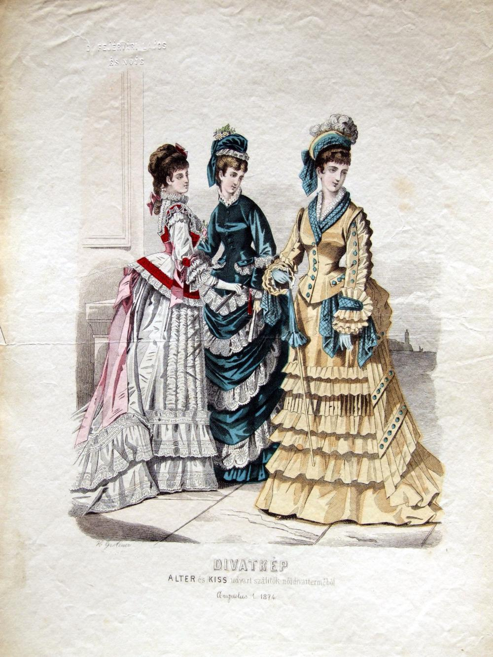 Historical Fashion Images of Alter és Kiss Designs